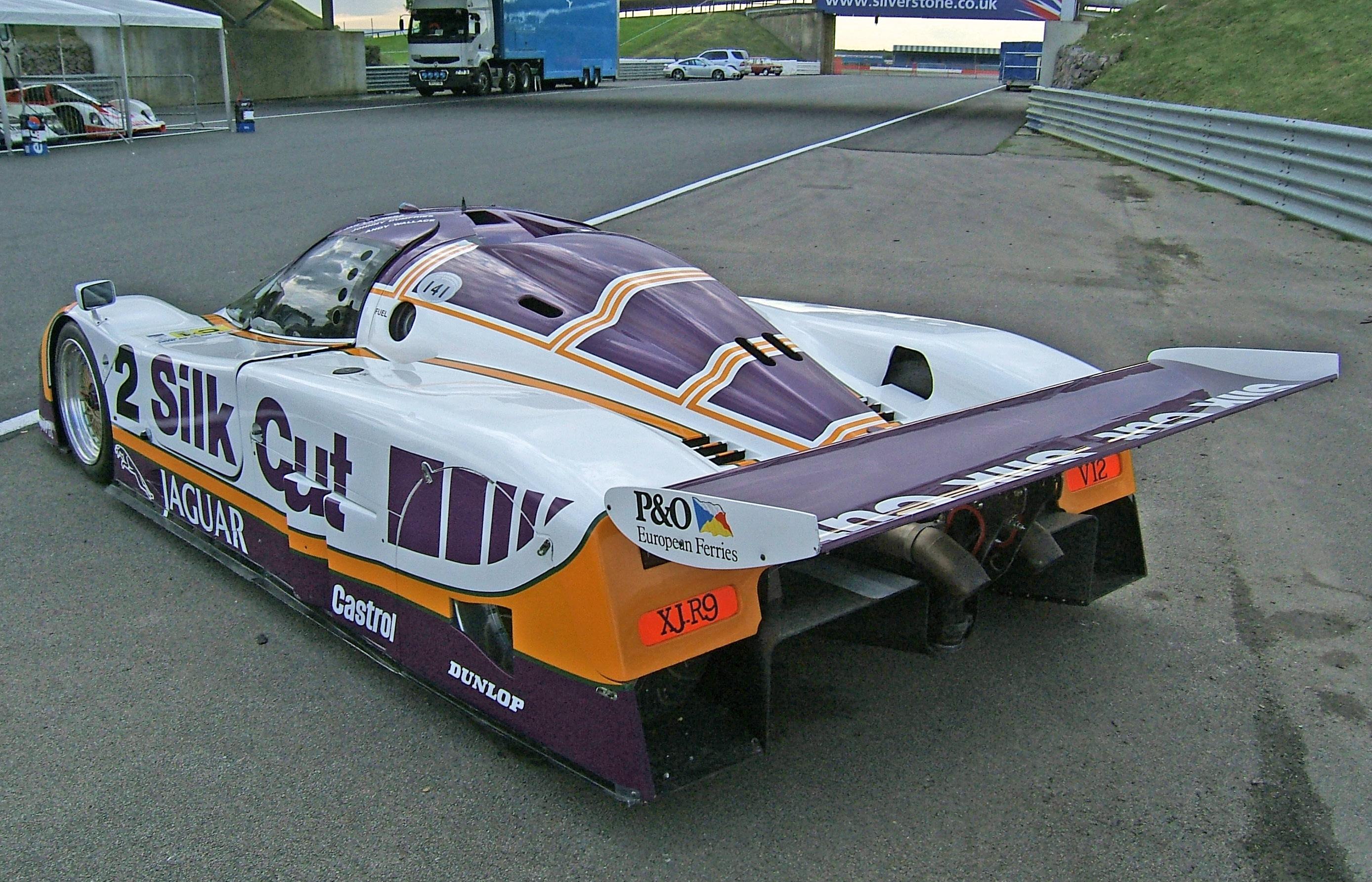 1988 Le Mans-winning Jaguar XJR9, sat on Silverstone's National Circuit during the 2007 Silverstone Classic race meeting, July 2007.